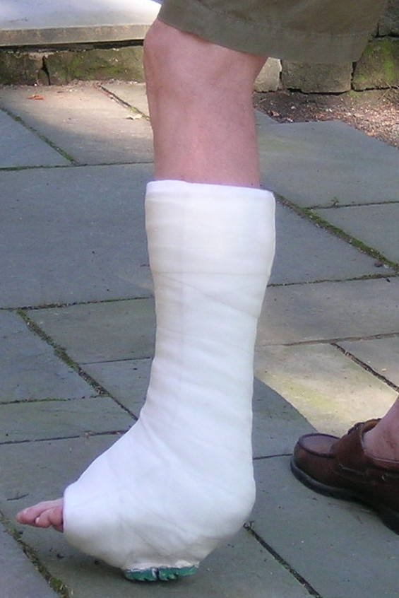 The traditional short leg walking cast uses a rubber heel incorporated into the sole of cast for ambulation.